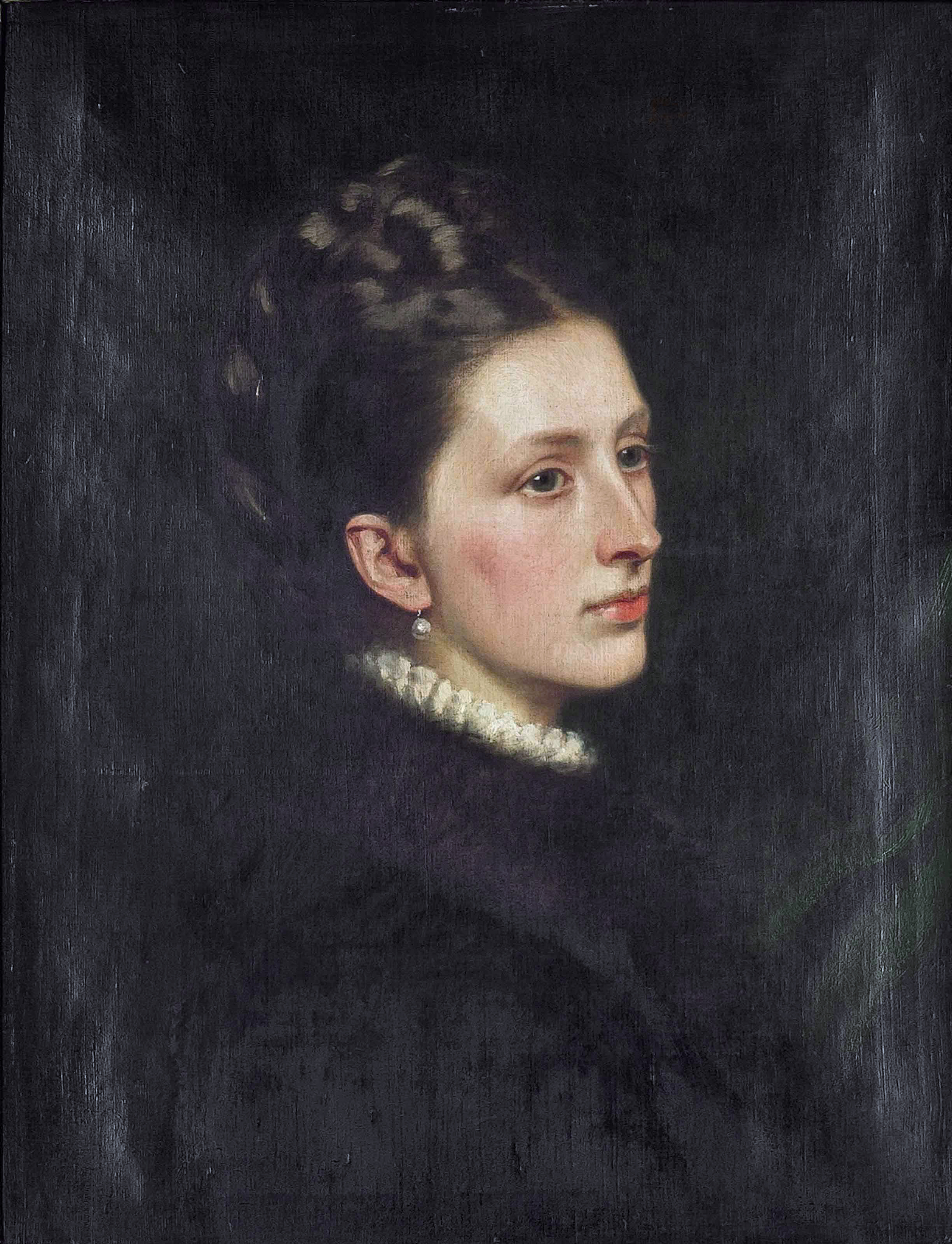 Castalia Rosalind, Countess Granville (1847-1938), wife of the second Earl Granville oil on canvas 63.5 x 47 cm